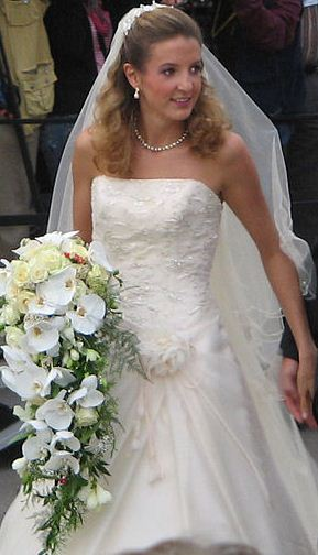 Prince Louis, Tessy Antony and their son Gabriel after their wedding in Gilsdorf.